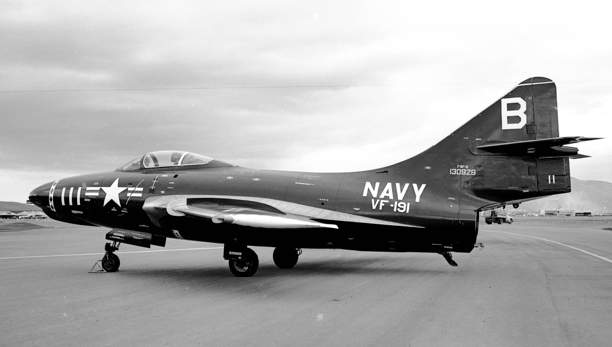 130929 at San Francisco in August 1954.